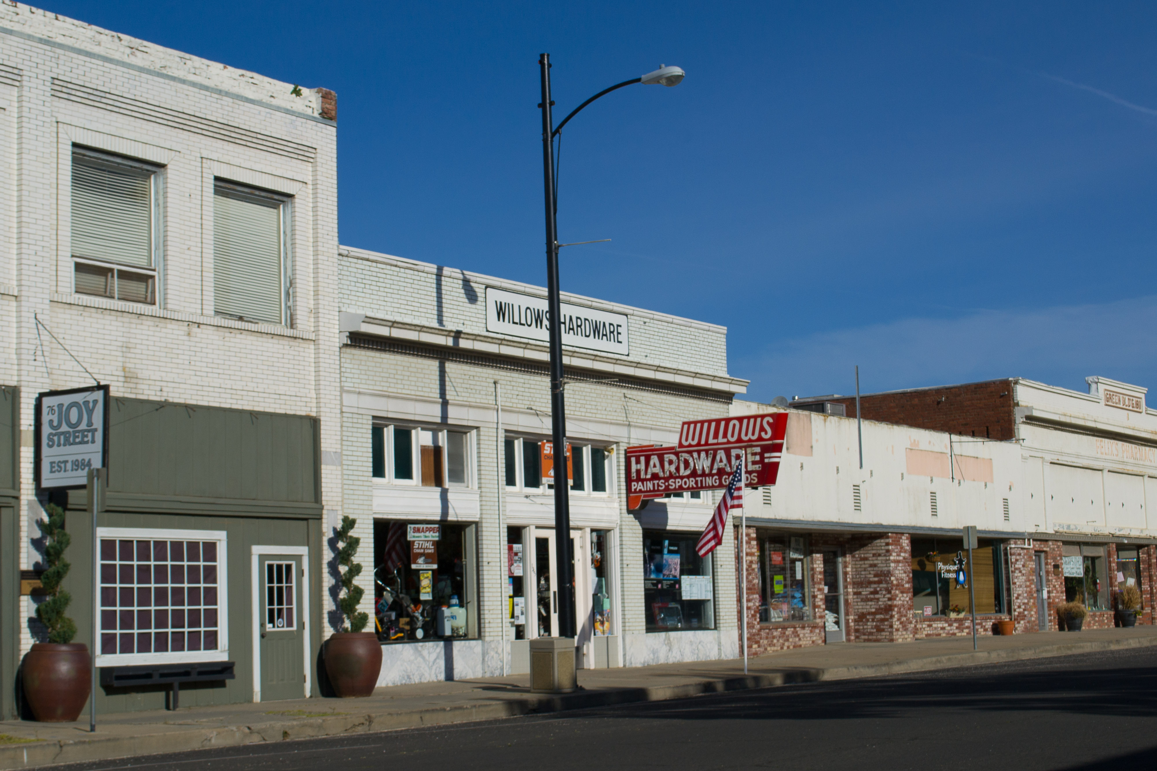 The Willows Hardware store